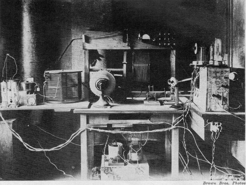 Frank Conrad's radio station 8XK in the garage of his home in Wilkinsburgh, PA July 1920, the origin of one of the first pioneering commercial broadcasting stations, the hugely popular KDKA in Pittsburgh, Pennsylvania. Conrad was assistant chief engineer of Westinghouse Corporation. His home station was licensed for experimental work (indicated by the "X" in the callsign) and Conrad used it for communication tests with Westinghouse's downtown Pittsburgh headquarters 4 miles away. During WW1 it was one of the few transmitters allowed to remain on the air, After the war, at the request of fellow "hams", on October 17, 1919 Conrad initiated one of the first entertainment broadcasts, playing phonograph records over his transmitter for two hours each Wednesday and Sunday evening. The next year when Westinghouse decided to start a radio station to promote the sale of their radio receivers, it asked Conrad to set it up. KDKA began broadcasting on 833 kHz at a power of 100 watts from a shack on the roof of Westinghouse's Pittsburgh office building on November 2, 1920, with coverage of the Harding-Cox Presidential election.